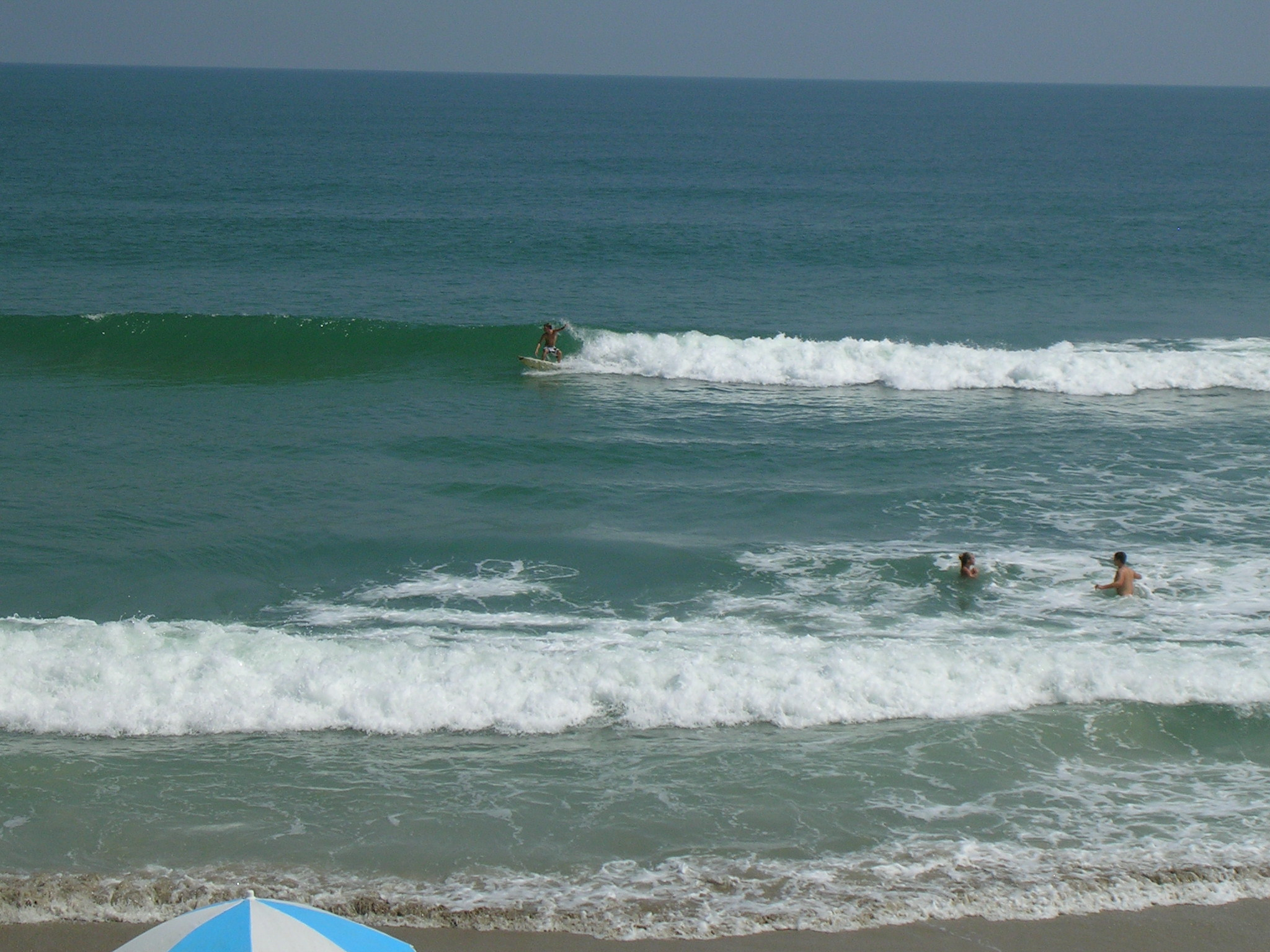 This is a picture of a surfer at parking spot 5 at Playalinda.